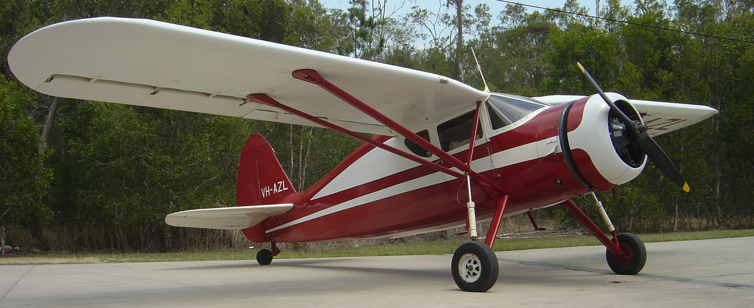 An Australian Fairchild 24 Argus - an authentic WW2 Veteran.